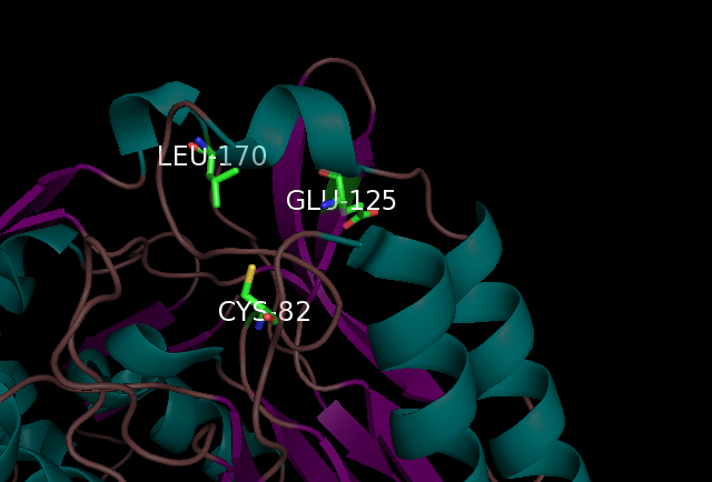 Possible active site of omega-amidase based on positioning and distance of catalytic triad residues.